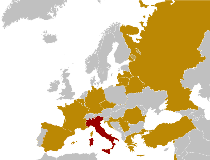 Shows teams of 2007 Eurobasket Women on an european map. Mostra le nazioni partecipanti all'EuroBaske Women 2007.